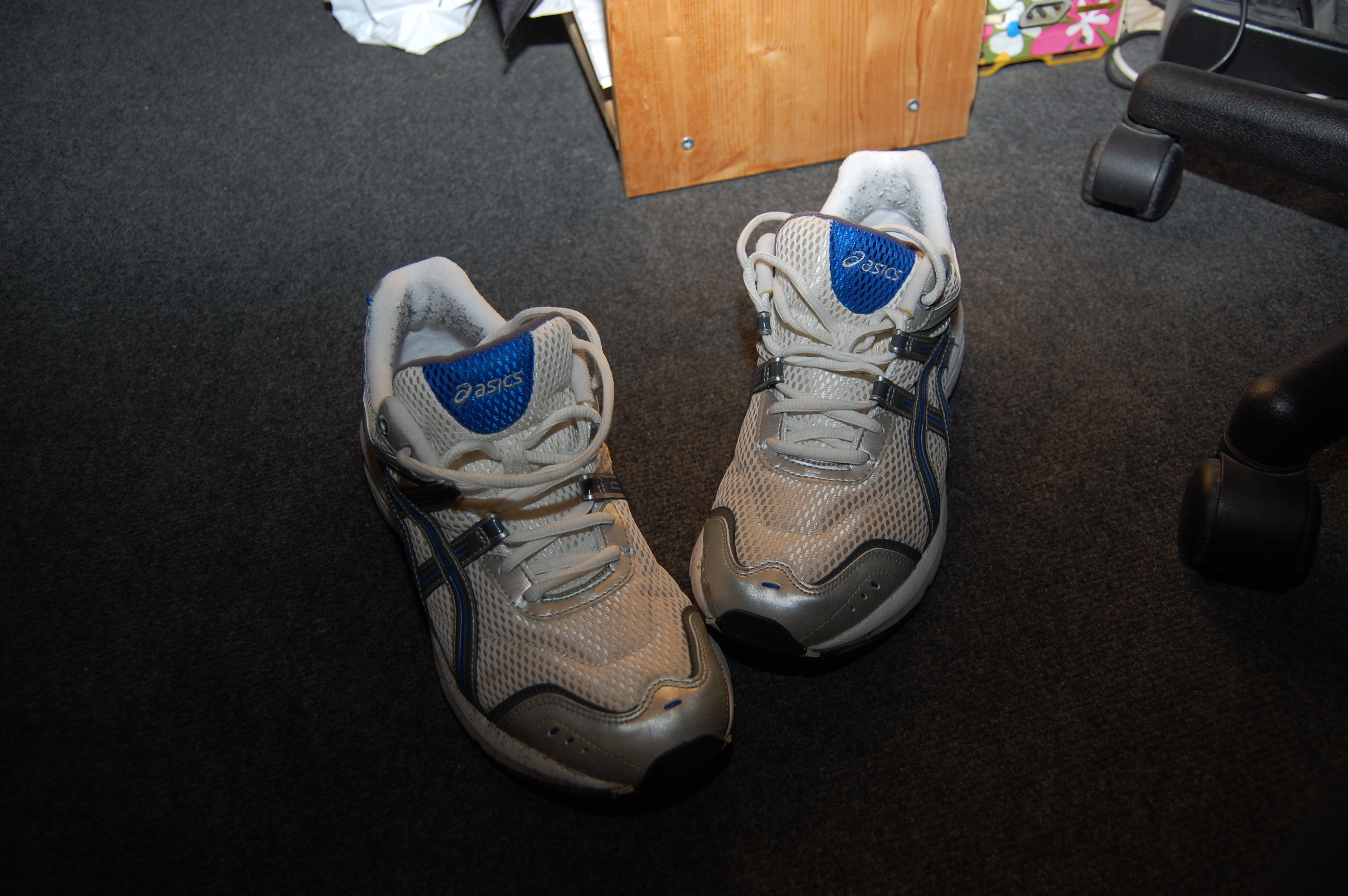 Running Shoes from Asics